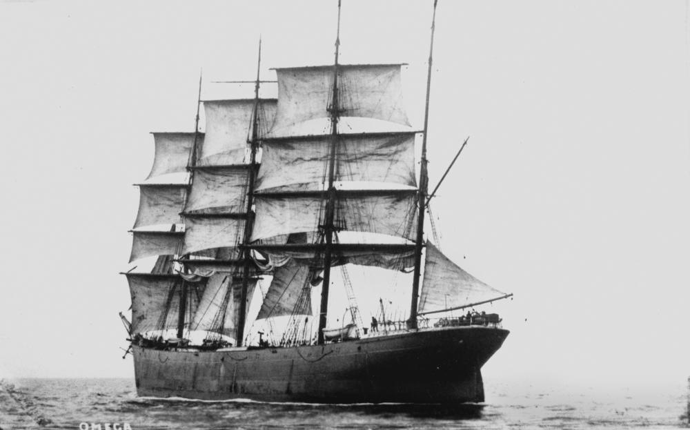 Omega (ship) Ex. 'Drumcliff'. (Information supplied with photograph).